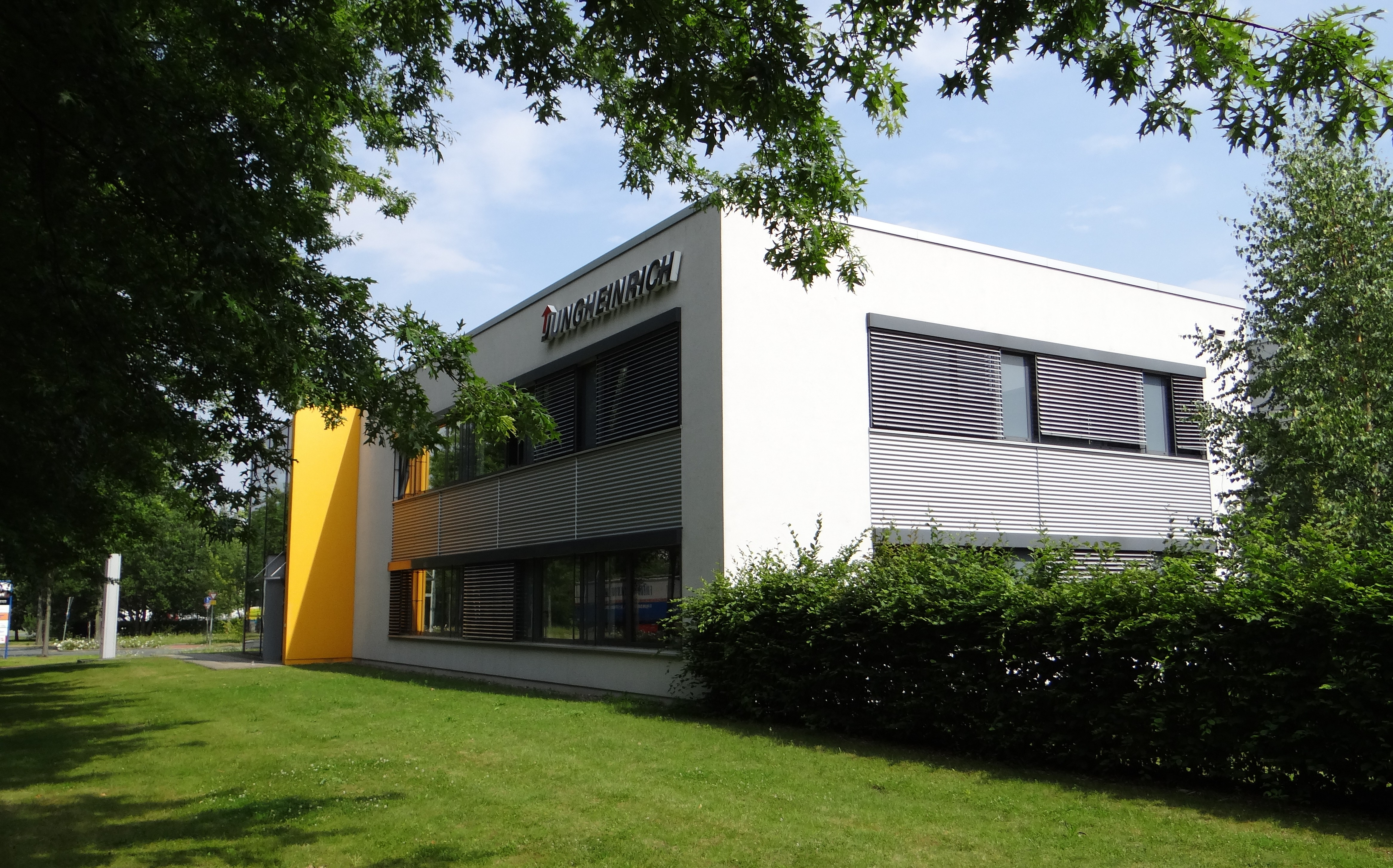 Jungheinrich office in Achim near Bremen, Germany.